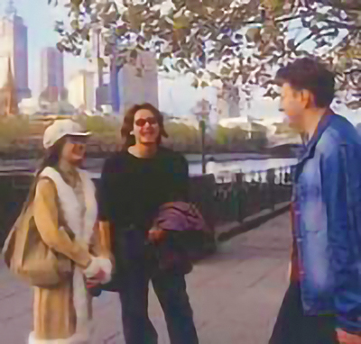 Anges and Roger with local supporting actor Maurice Novoa Ruiz after shooting an episode of an Indonesian TV show in Melbourne